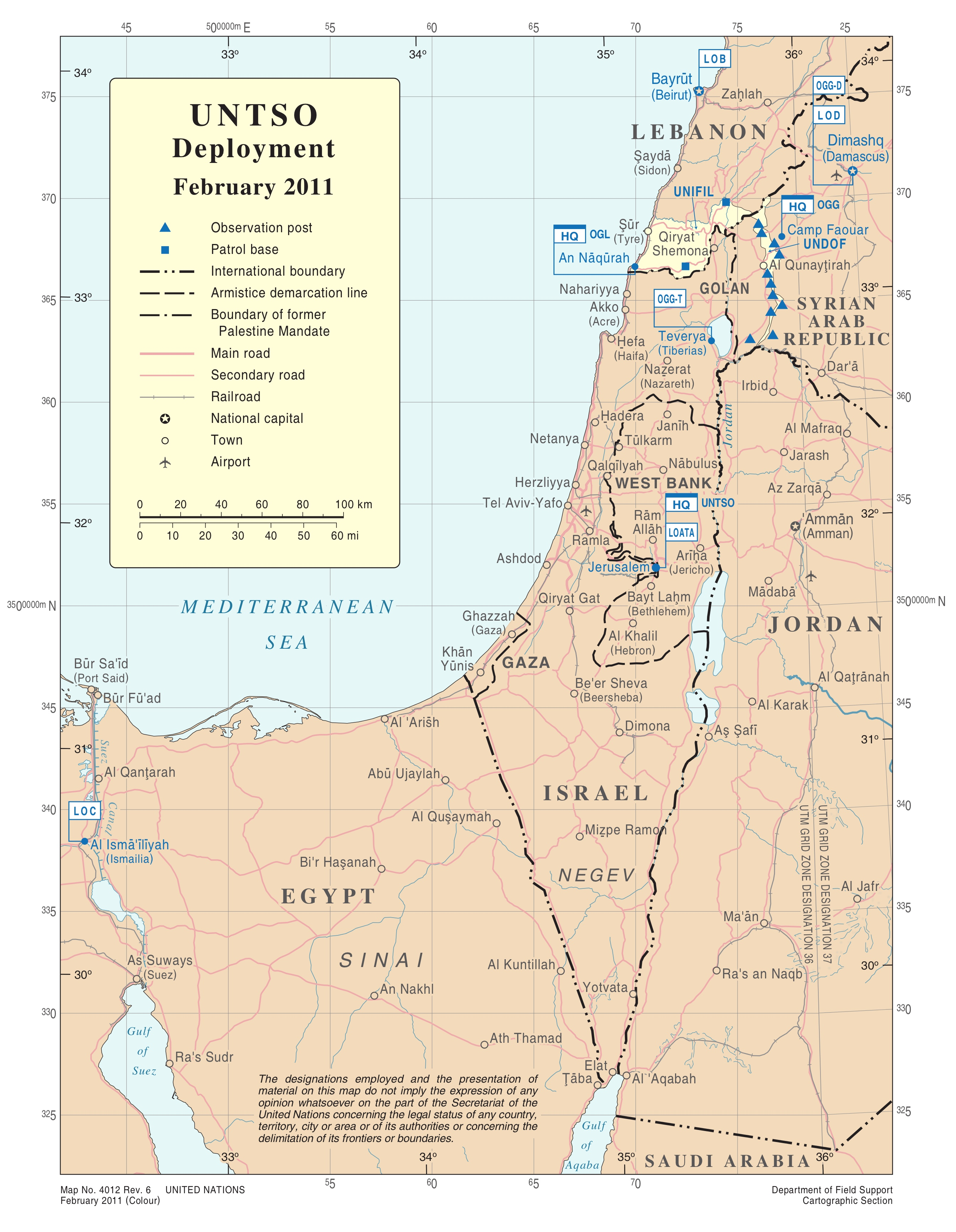 United Nations Truce Supervision Organization (UNTSO) deployment at February 2011.